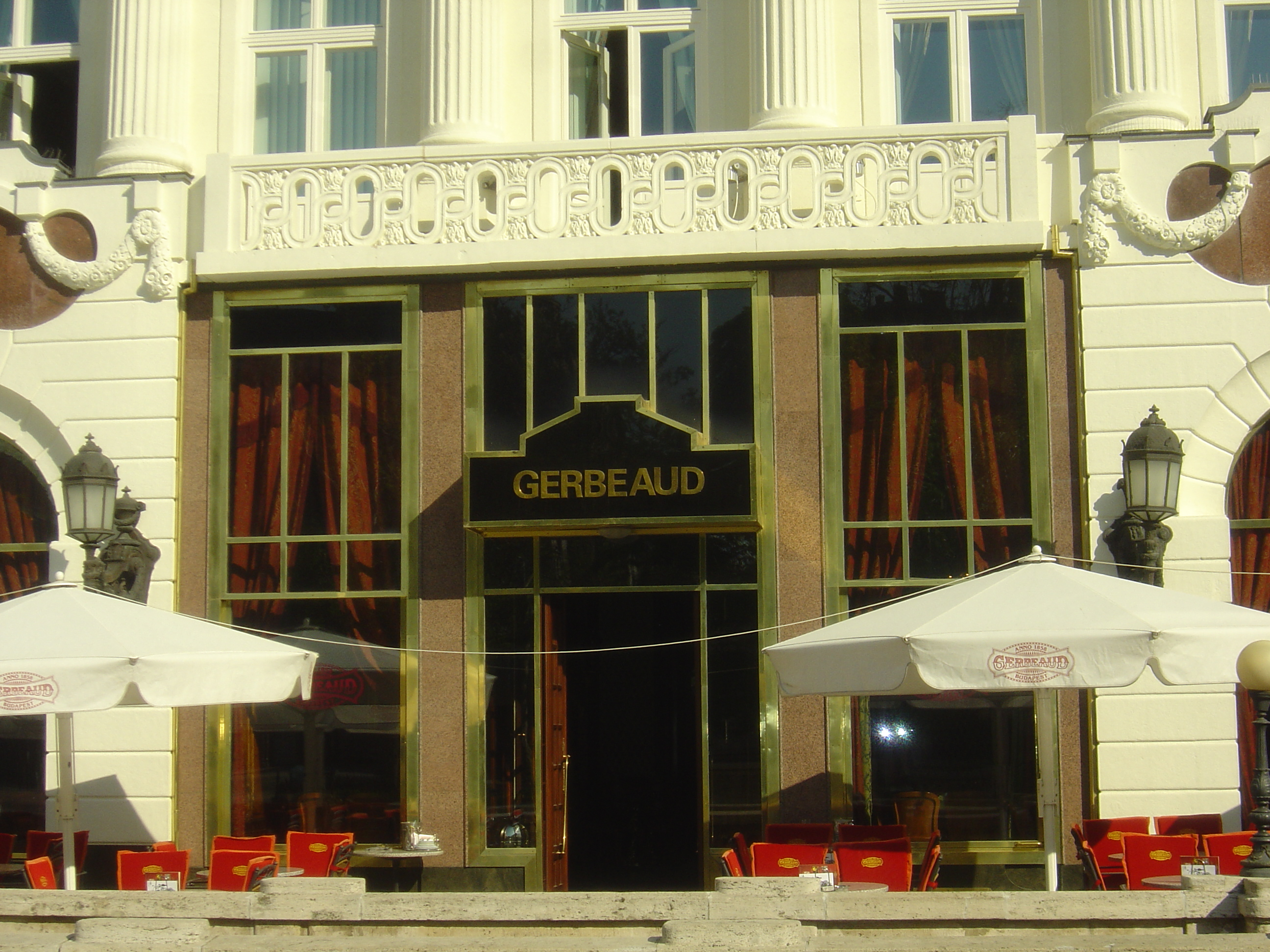 Café Gerbeaud, Budapest